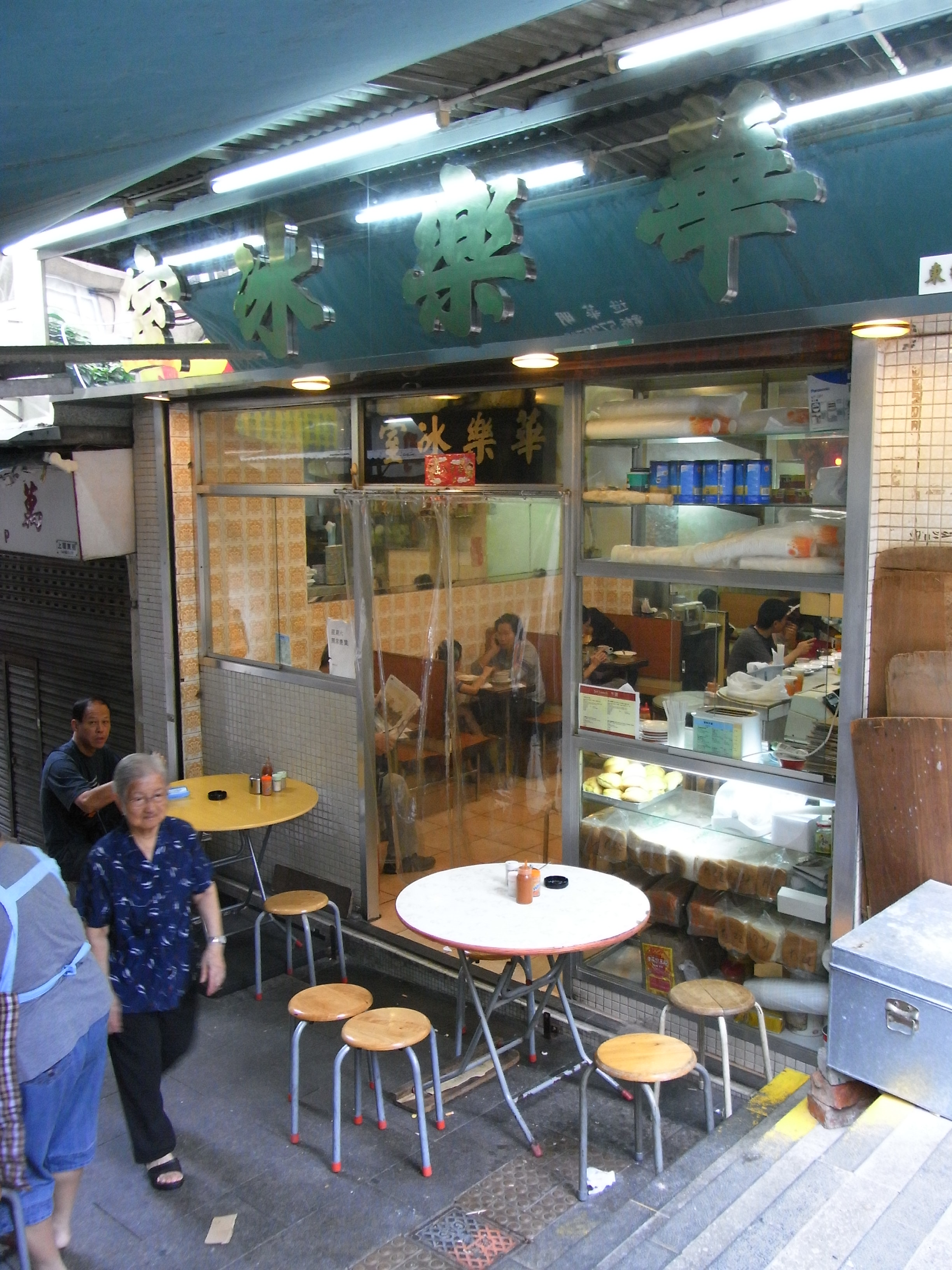 上環 東街, Restaurant in Tung Street, Sheung Wan, Hong Kong